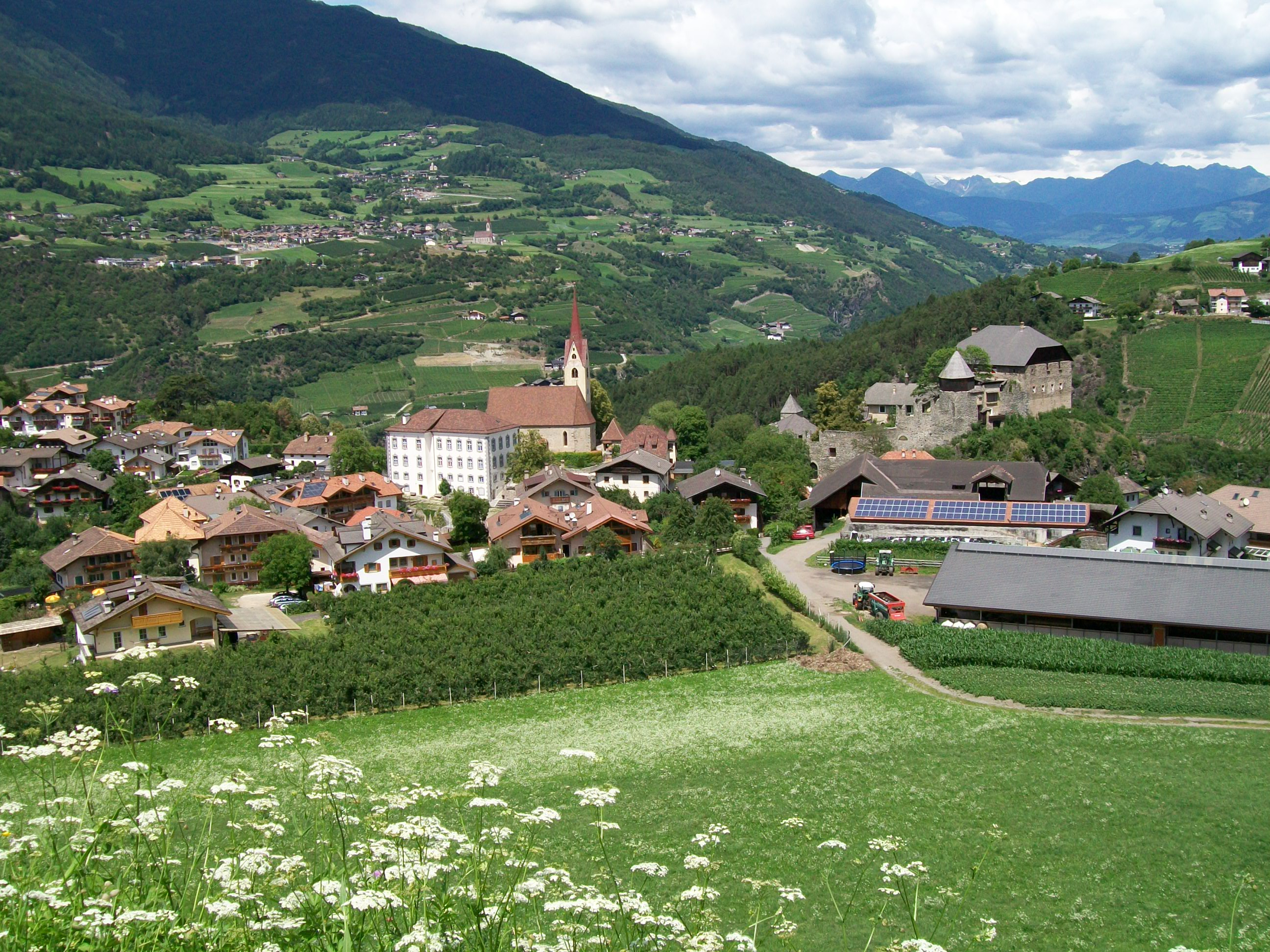 View of the village Gufidaun